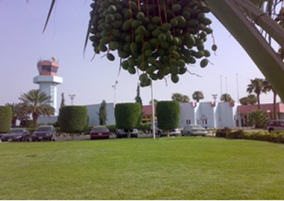 pic from albaha airport